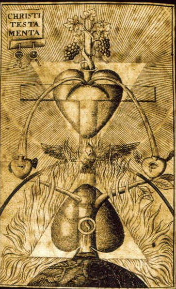 'Christi Testamenta' by Jakob Böhme illustrates a heart superimposed on a cross, as well as veins and other heart-shaped forms also representing the Christian Trinity.